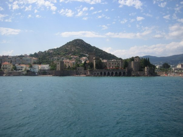 Mandelieu-la-Napoule